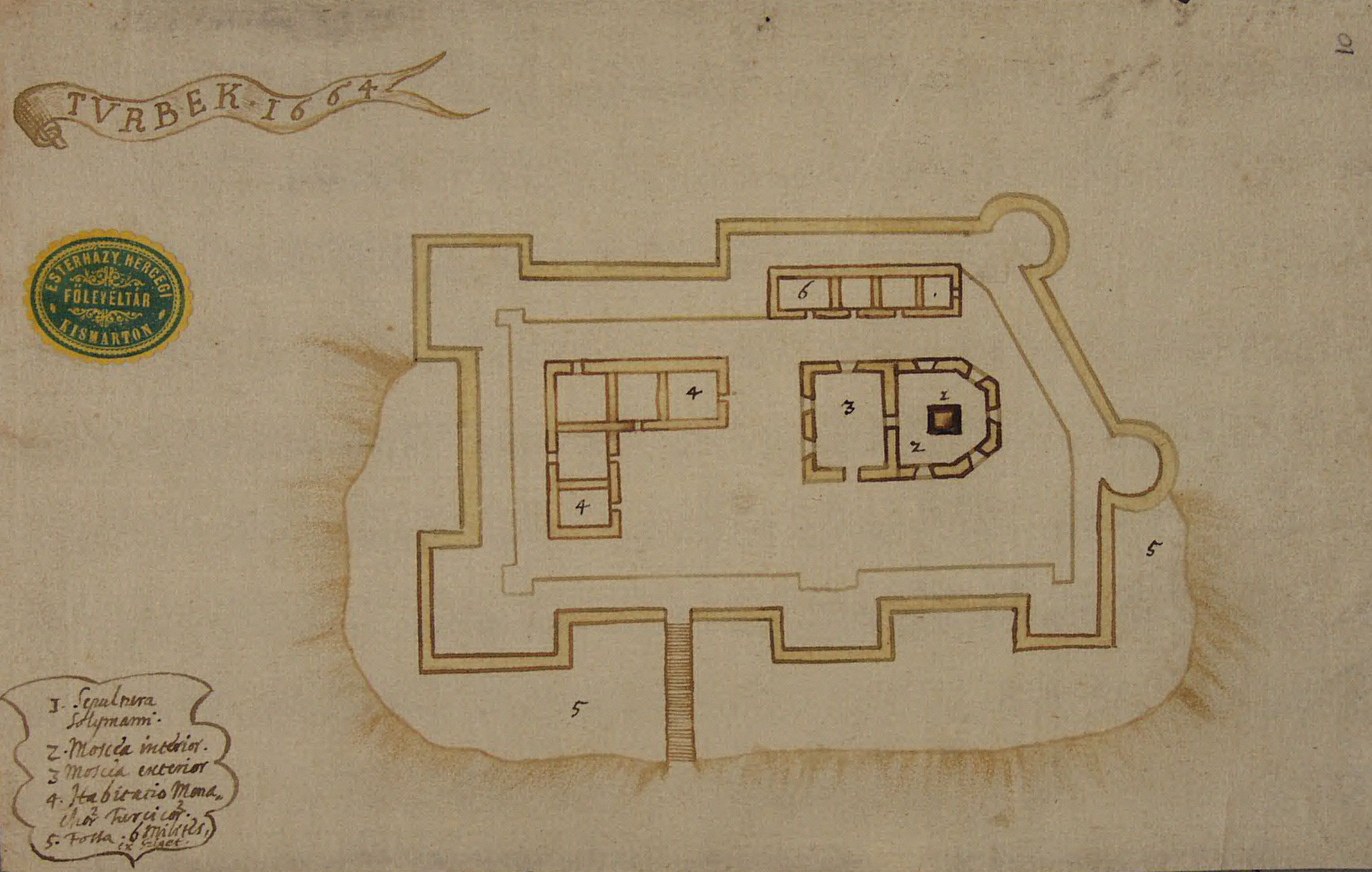 Map of Turbek, 1664